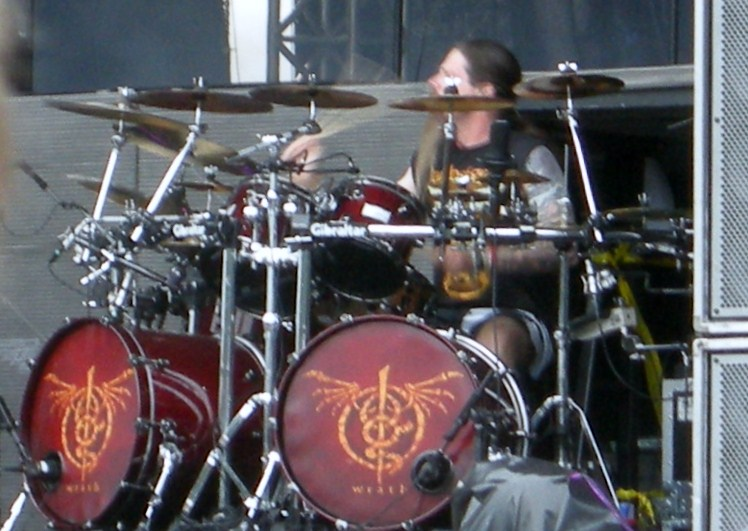 Chris Adler, Lamb of God, at Sonisphere Sweden 2009.